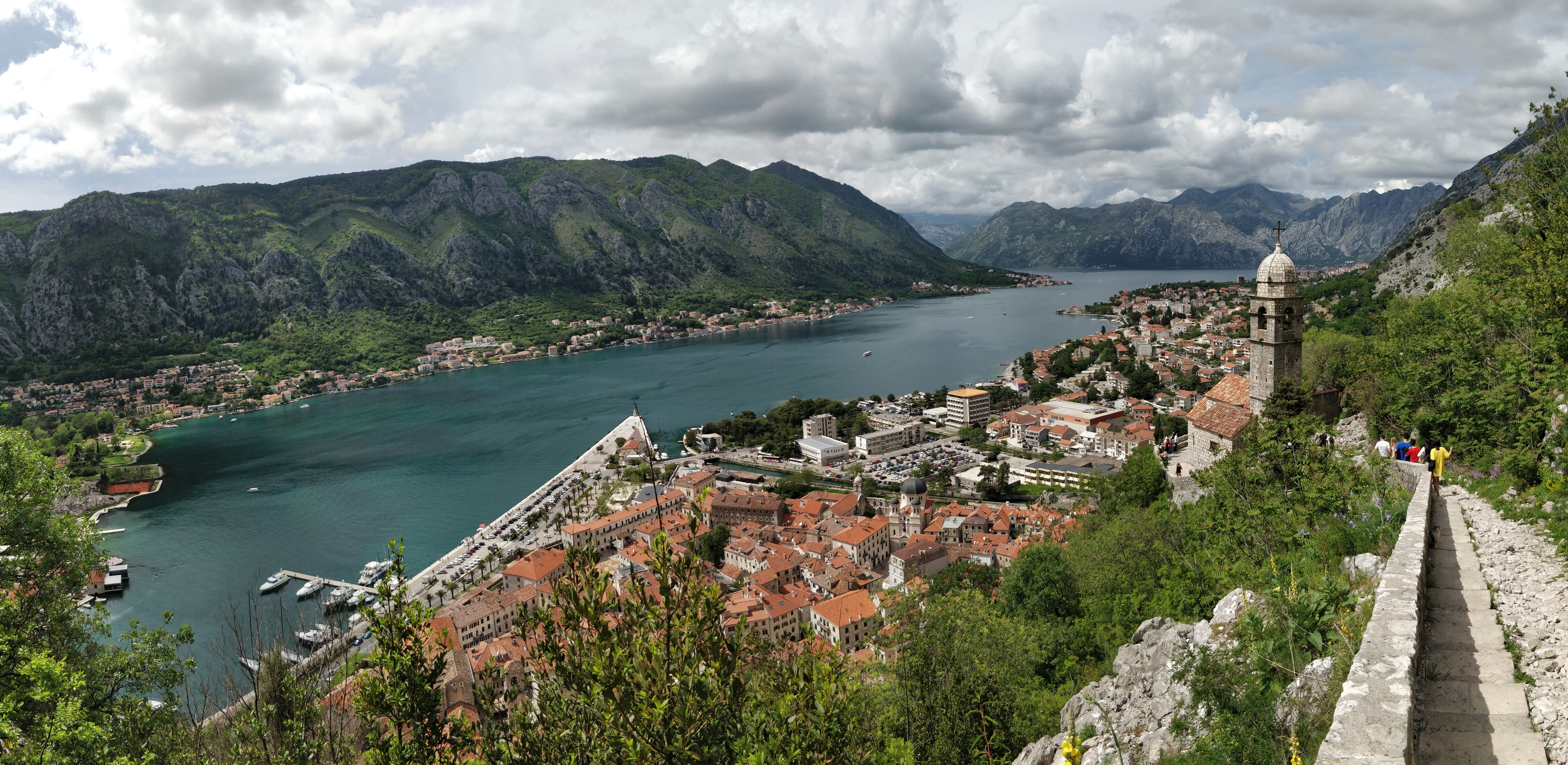 View over Kotor bay and old town